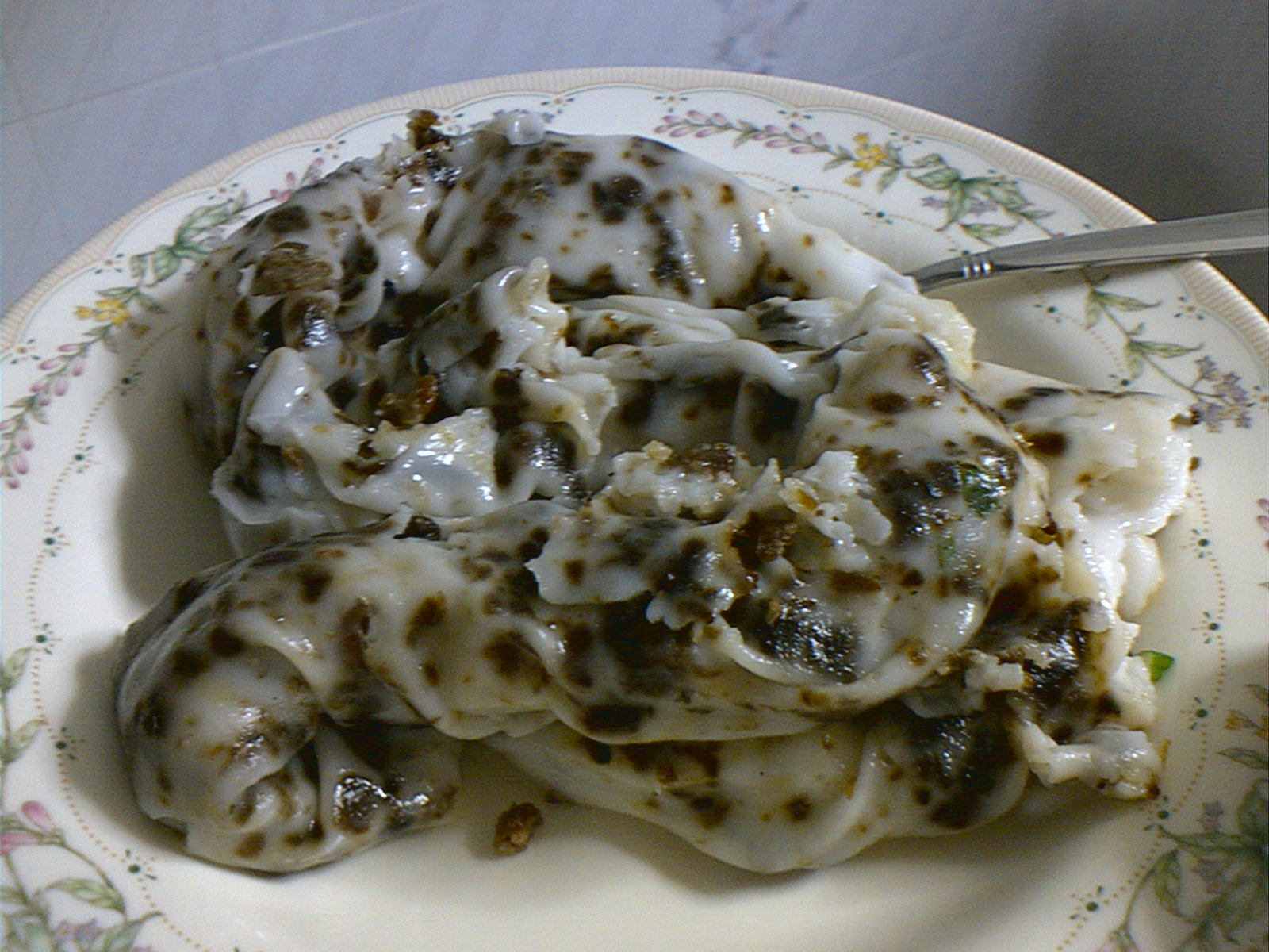 Teluk Intan 'Chee Cheong Fun'(猪肠粉). Picture taken by derrickflc.